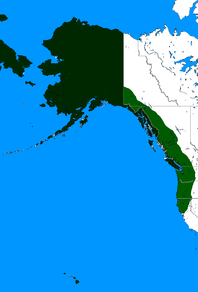 This map depicts the Empire of Russia in North America and its claims.